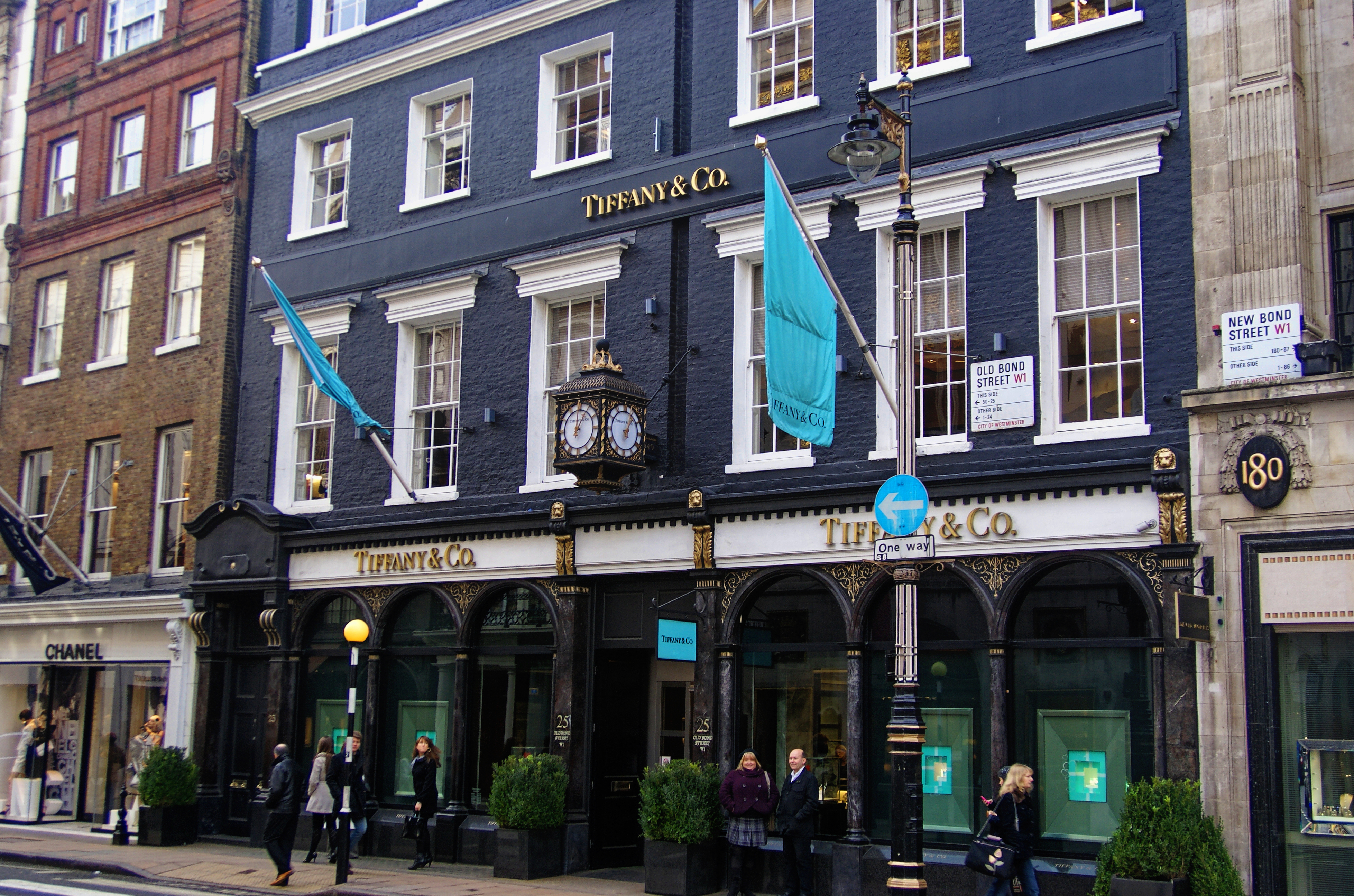 London - New & Old Bond Street - Tiffany